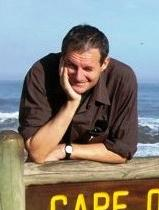 Oren Yiftachel